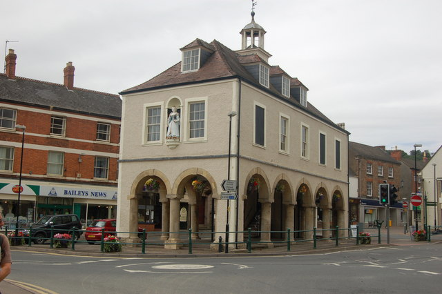 Dursley Market Hall Built c1783